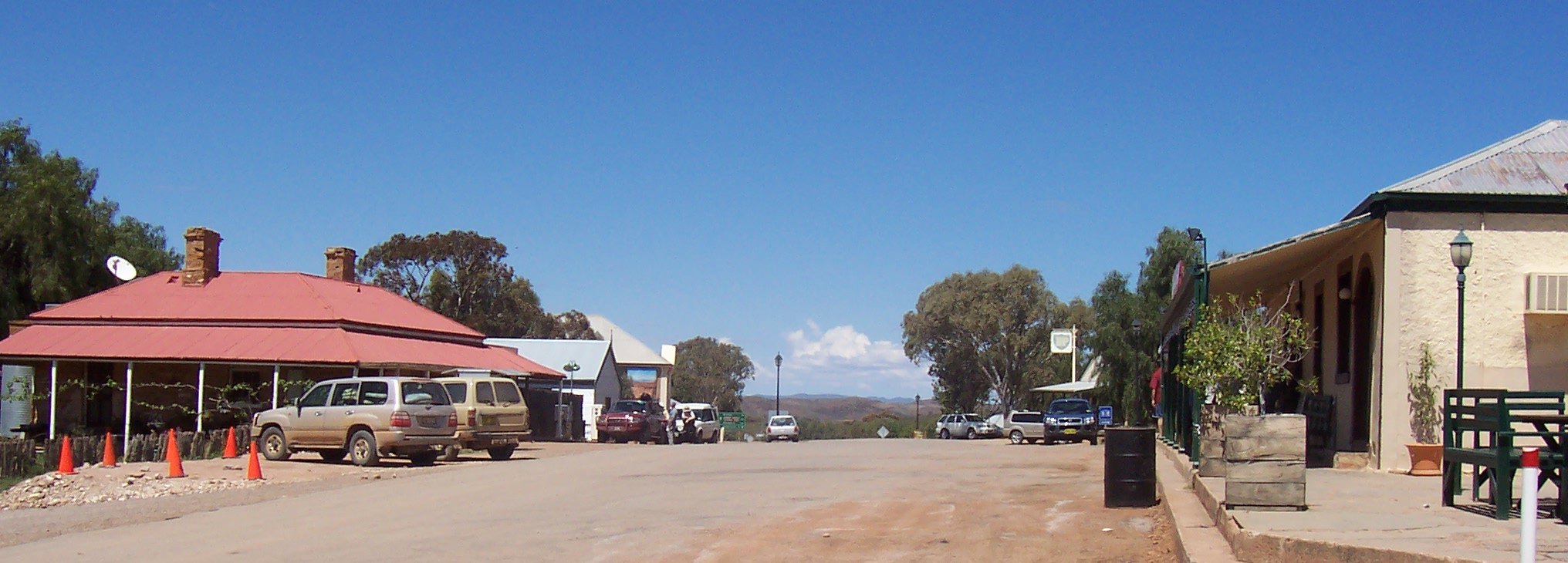 Original picture, for Blinman. This is taken a few days after Camp Out Back in 2004